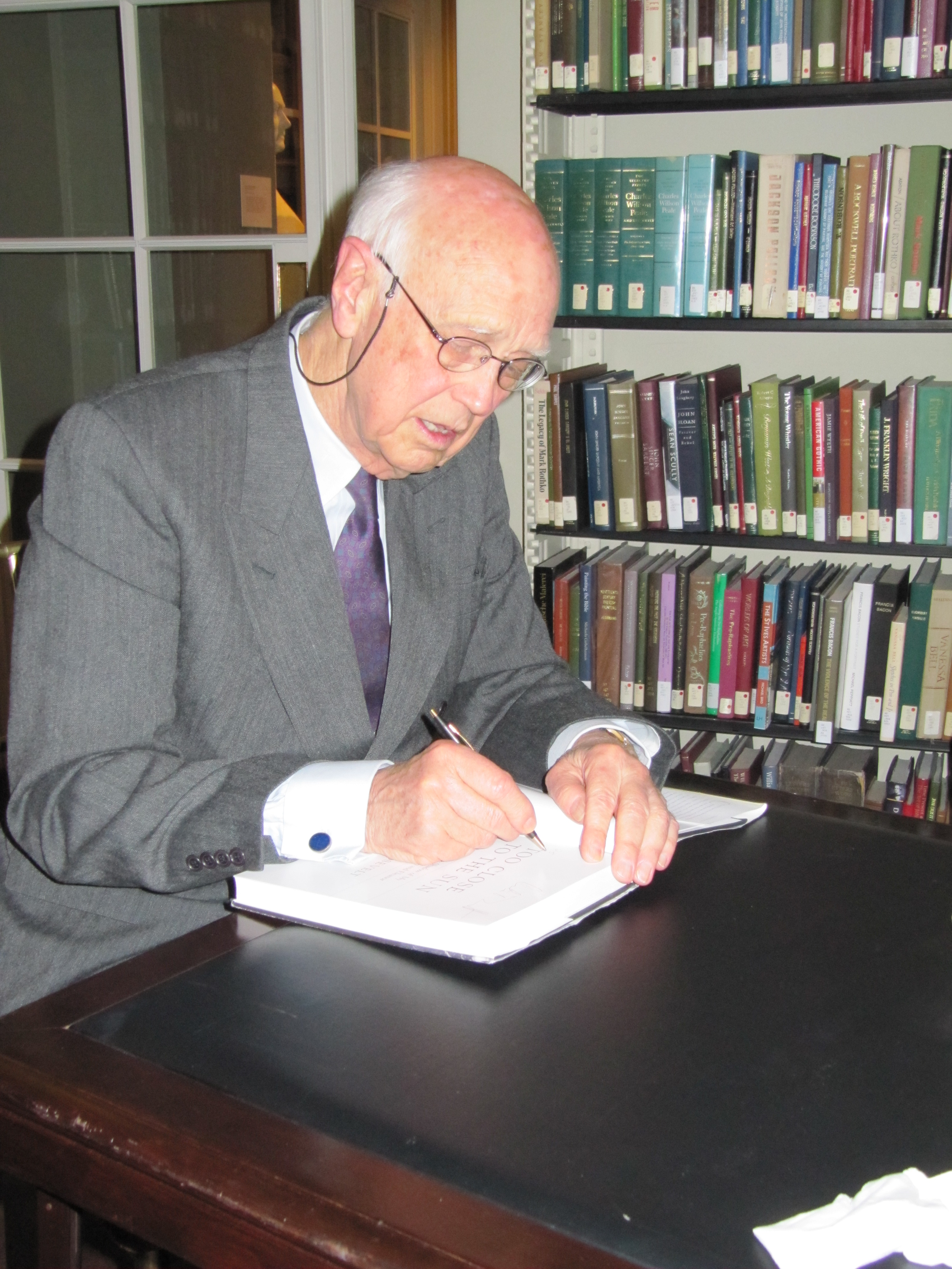 Photo of Curtis Roosevelt during a 2010 visit to the Boston Athenæum